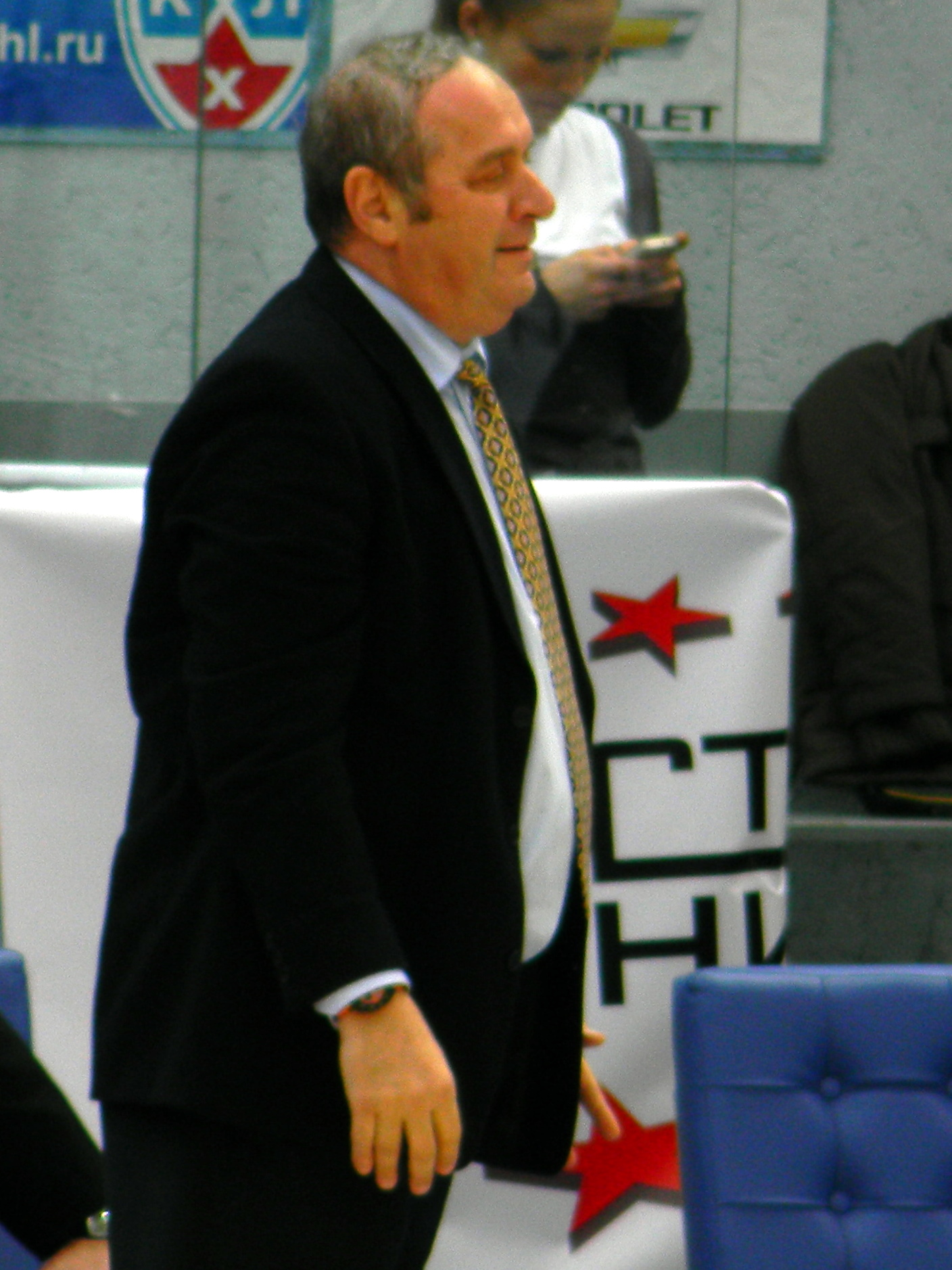 Zvi Sherf, israelian basketball coach from Spartak Saint-Petersburg in the game against BC Nizhny Novgorod on March 19th, 2011